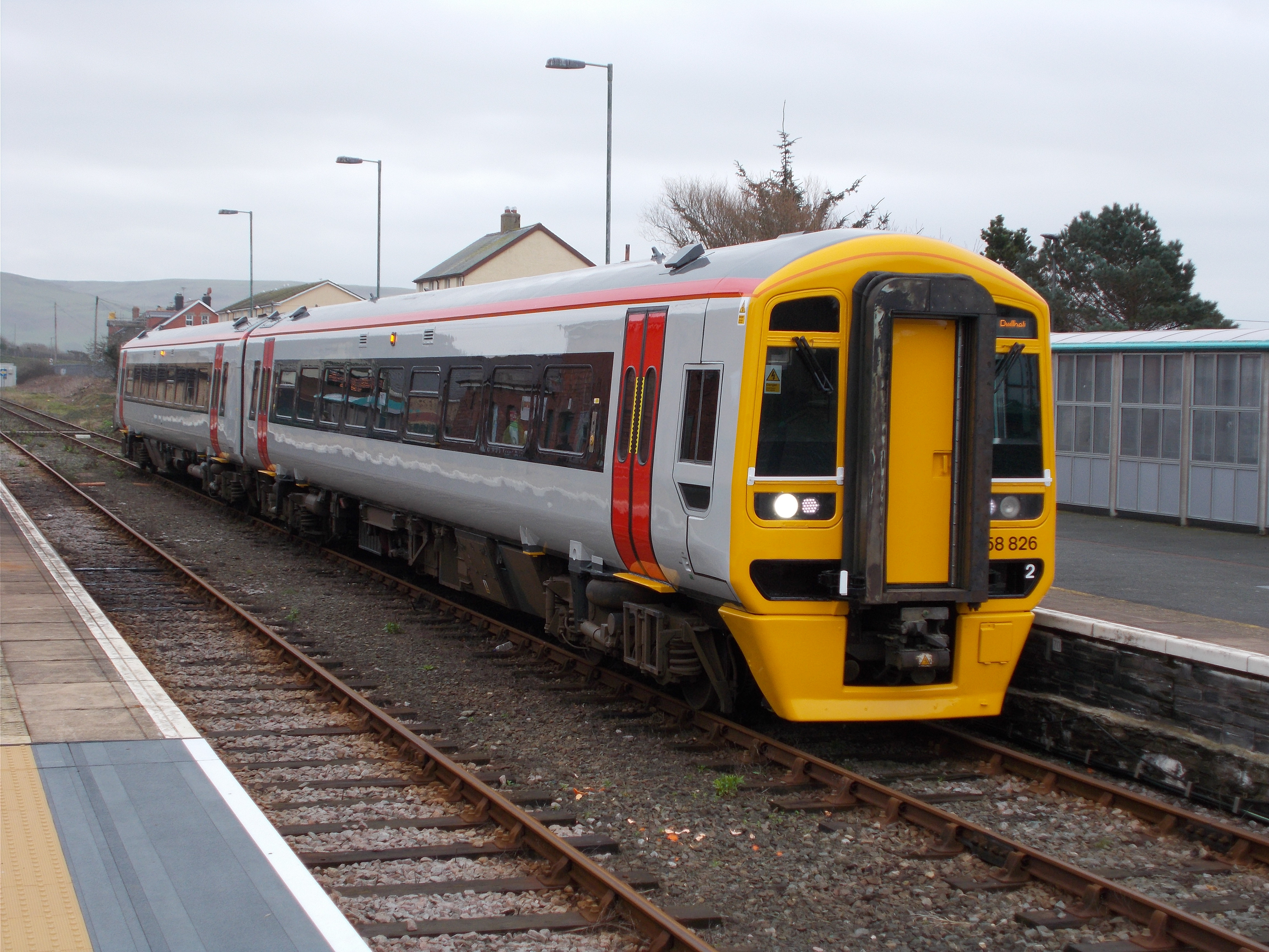 Transport for Wales livery class 158 at Tywyn station